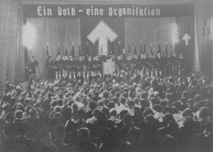 Rally of the German People's Union in Poland in Łódź, 1938